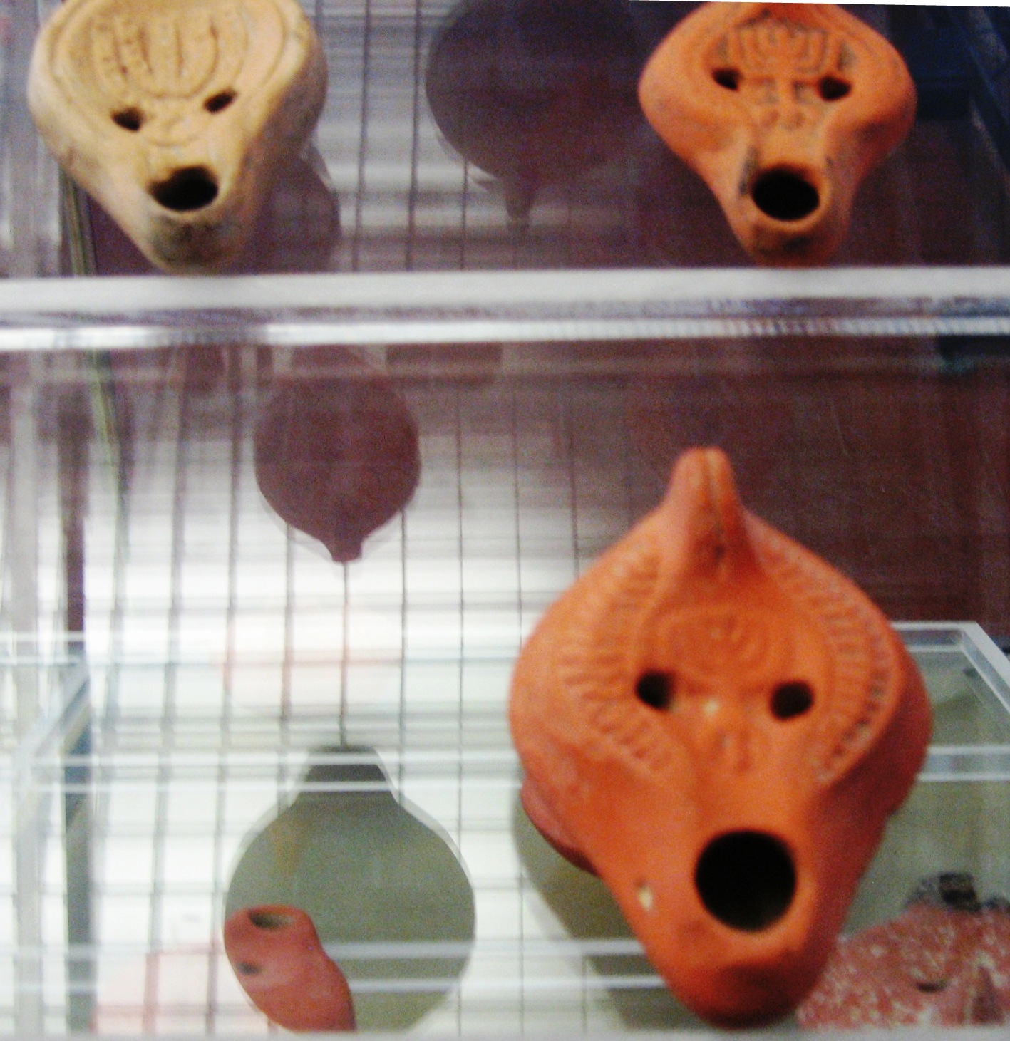 Three Ancient Roman oil lamps, showing the Jewish menorah, on display at the Museo nazionale archeologico ed etnografico "G. A. Sanna" at Sassari, Italy.